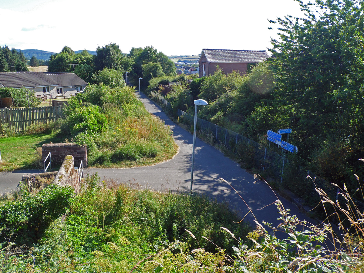 The main station building has been remove, both sides of the platform do remain, however part of one side has been partially removed and paved over, to pass through the wall where the station building used to be, as part of the current cycle and foot path.